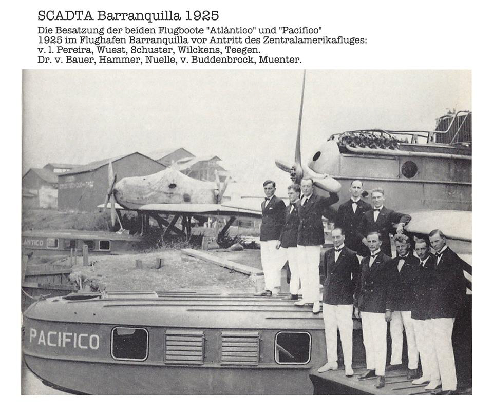 Crew of the two flying boats "Atlántico" and "Pacifico" 1925 in Barranquilla v. I. Pereira, Wuest, Schuster, Wilckens, Teegen. Peter von Bauer, Fritz W. Hammer, Nuelle, v. Buddenbrock, Muenter.